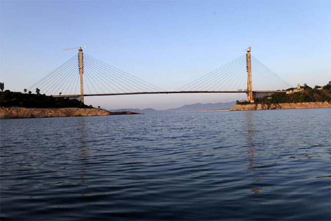 North India's first cable stayed bridge